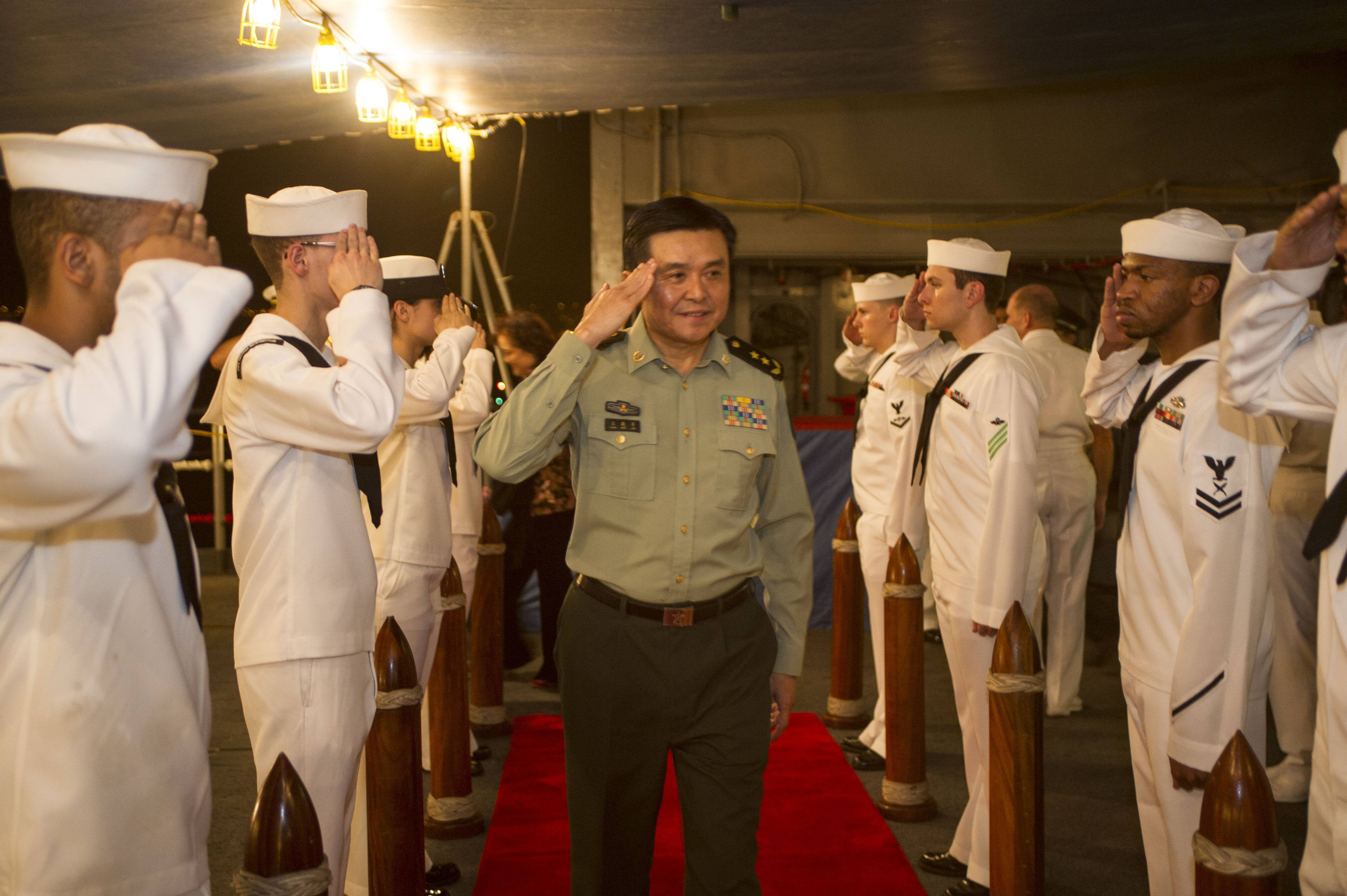 Side boys render honors to Lt. Gen. Wang Xiaojun, commander, People's Liberation Army Hong Kong Garrison, as he departs the U.S. Navy's forward-deployed aircraft carrier USS George Washington during a welcome reception. George Washington and its embarked air wing, Carrier Air Wing 5, provide a combat-ready force that protects and defends the collective maritime interest of the U.S. and its allies and partners in the Indo-Asia-Pacific region.